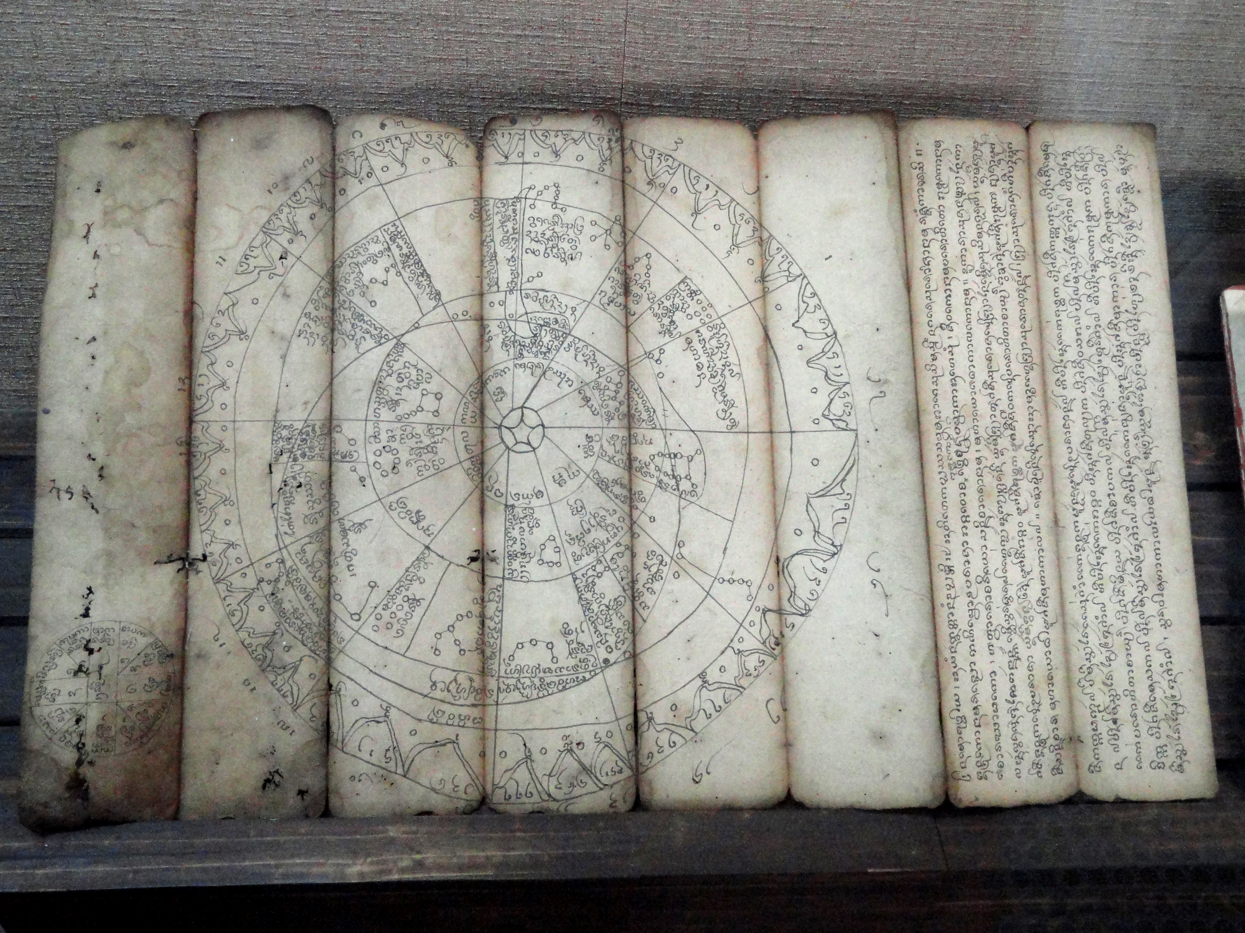 Dai astronomical calendar on mulberry-bark paper. Manuscripts / writing systems in the Yunnan Nationalities Museum, Kunming, Yunnan, China.